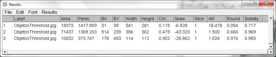 Resultado da identificação